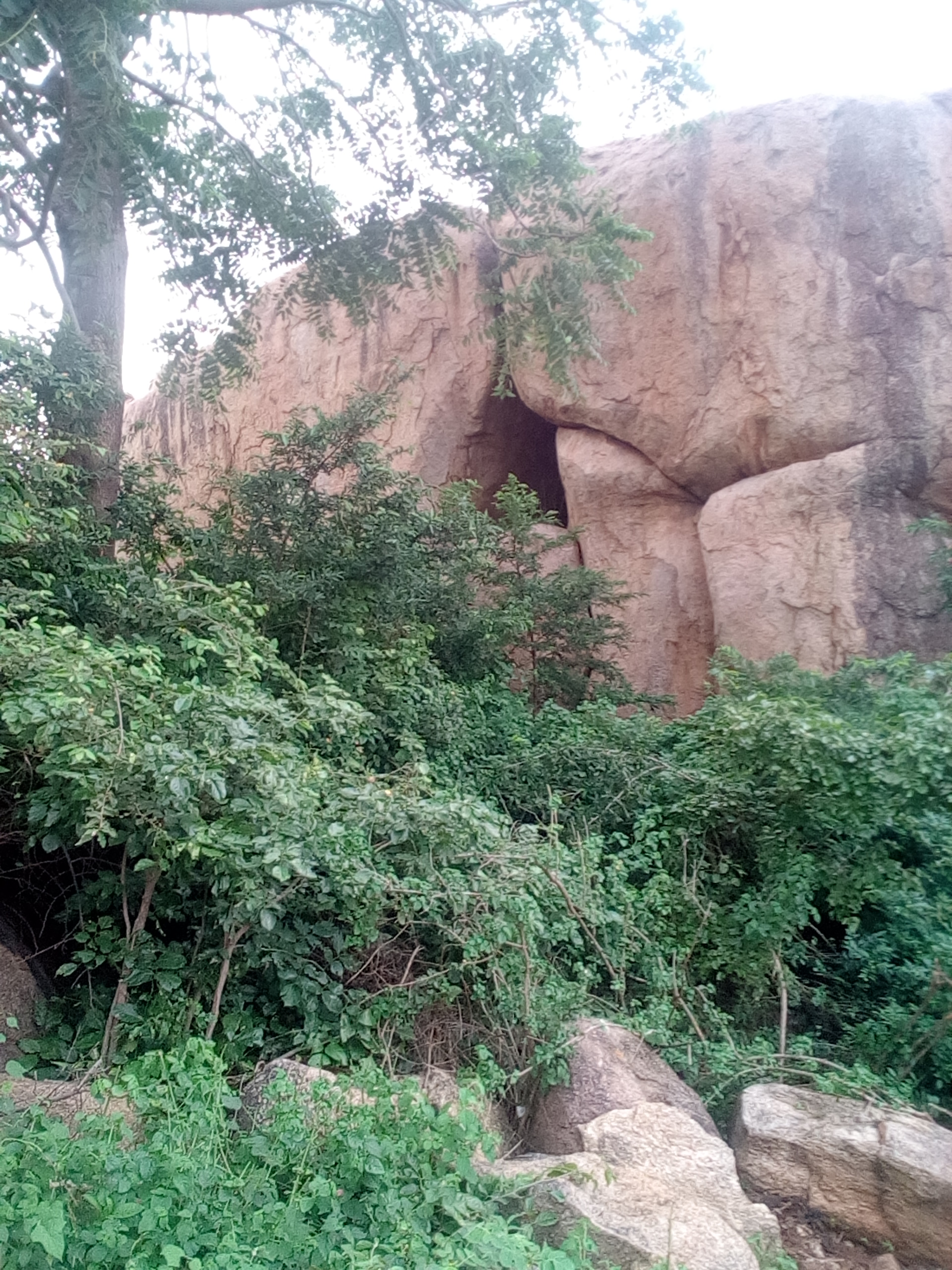 چندیری کے ایک خوبصورت سرنگ کا منظر